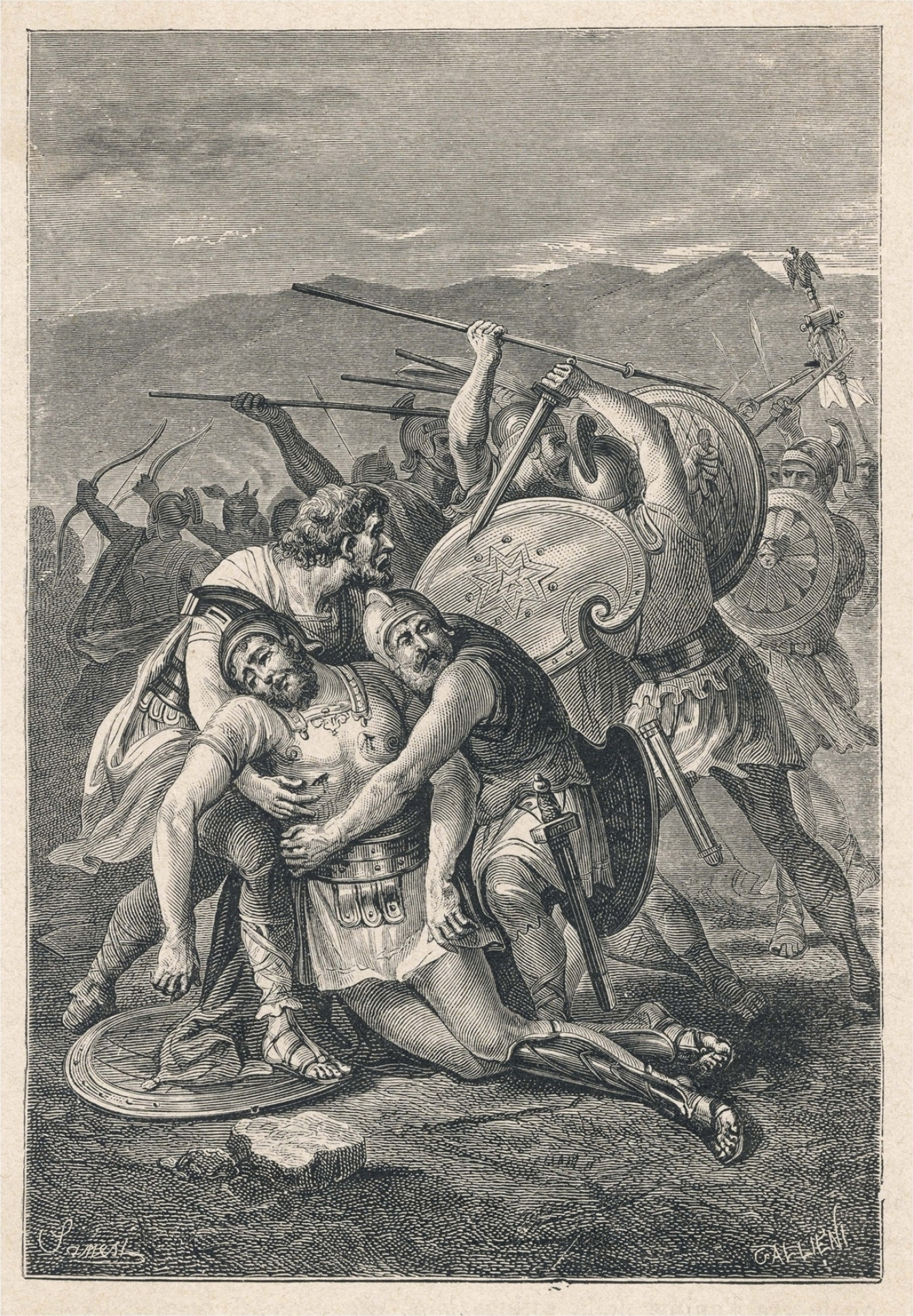 Slave Revolt in the Final Battle Crassus Defeats the Slaves and Spartacus is Killed